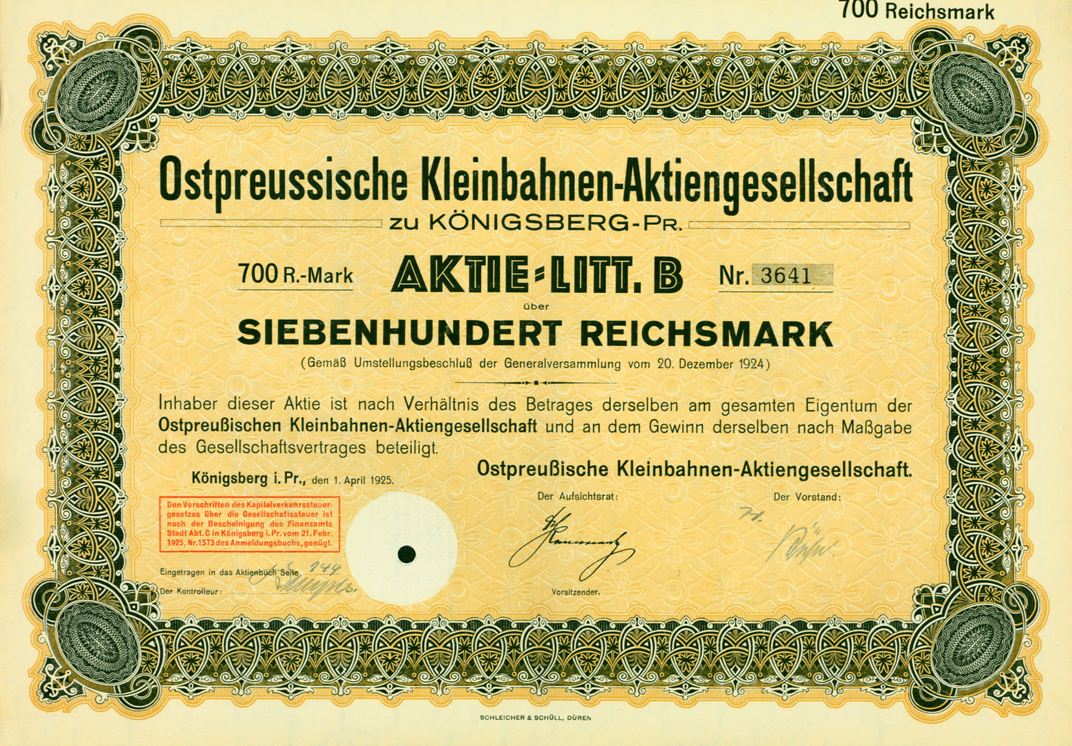 Share of the Ostpreussische Kleinbahnen-AG, issued 1. April 1925